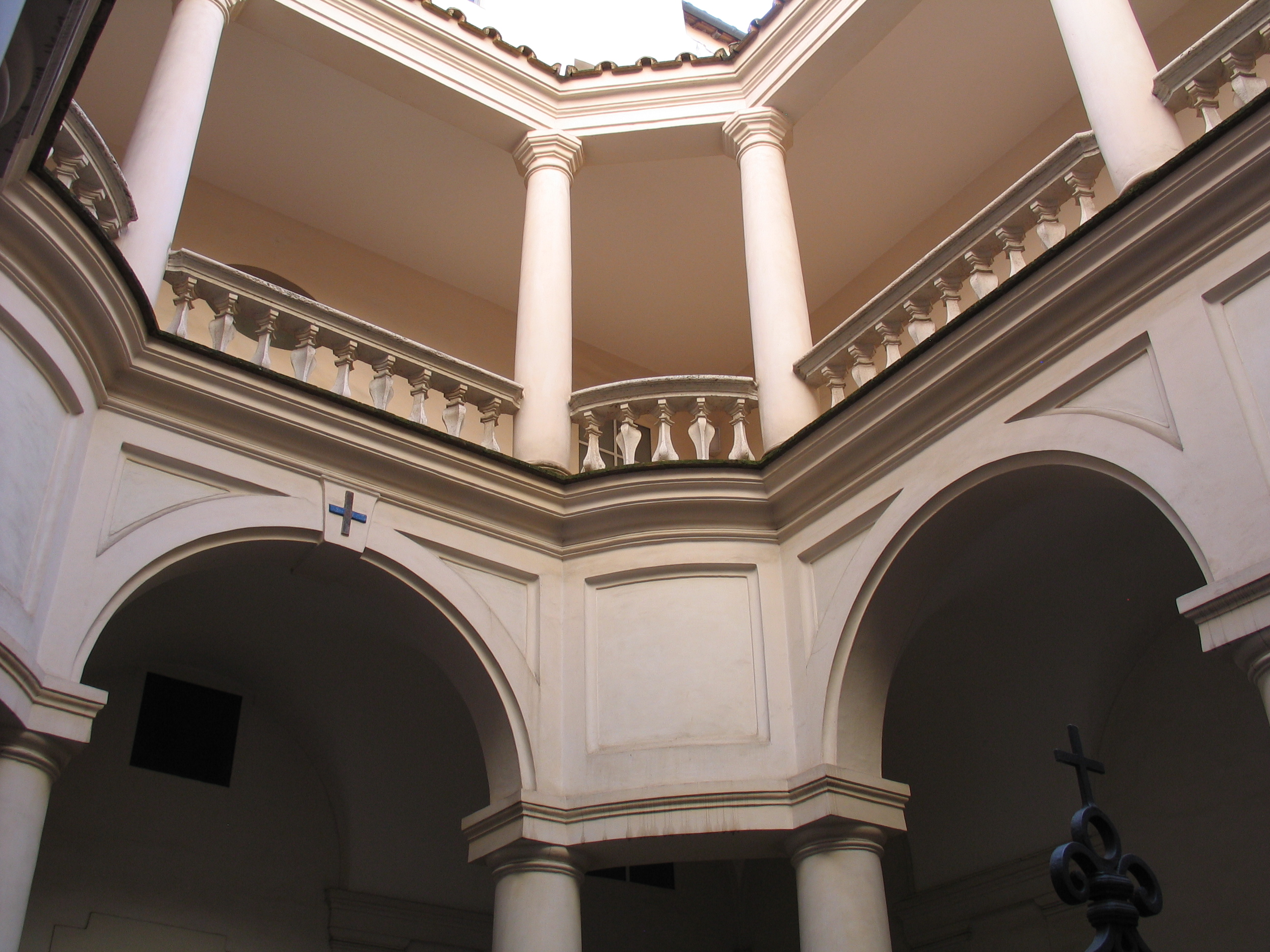 Cloister San Carlino. Borromini's elegant solution for the architectural problem of the inside corner.